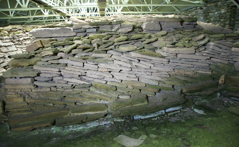 Midhowe Chambered Cairn, Rousay, Orkney, Scotland - outer face walling